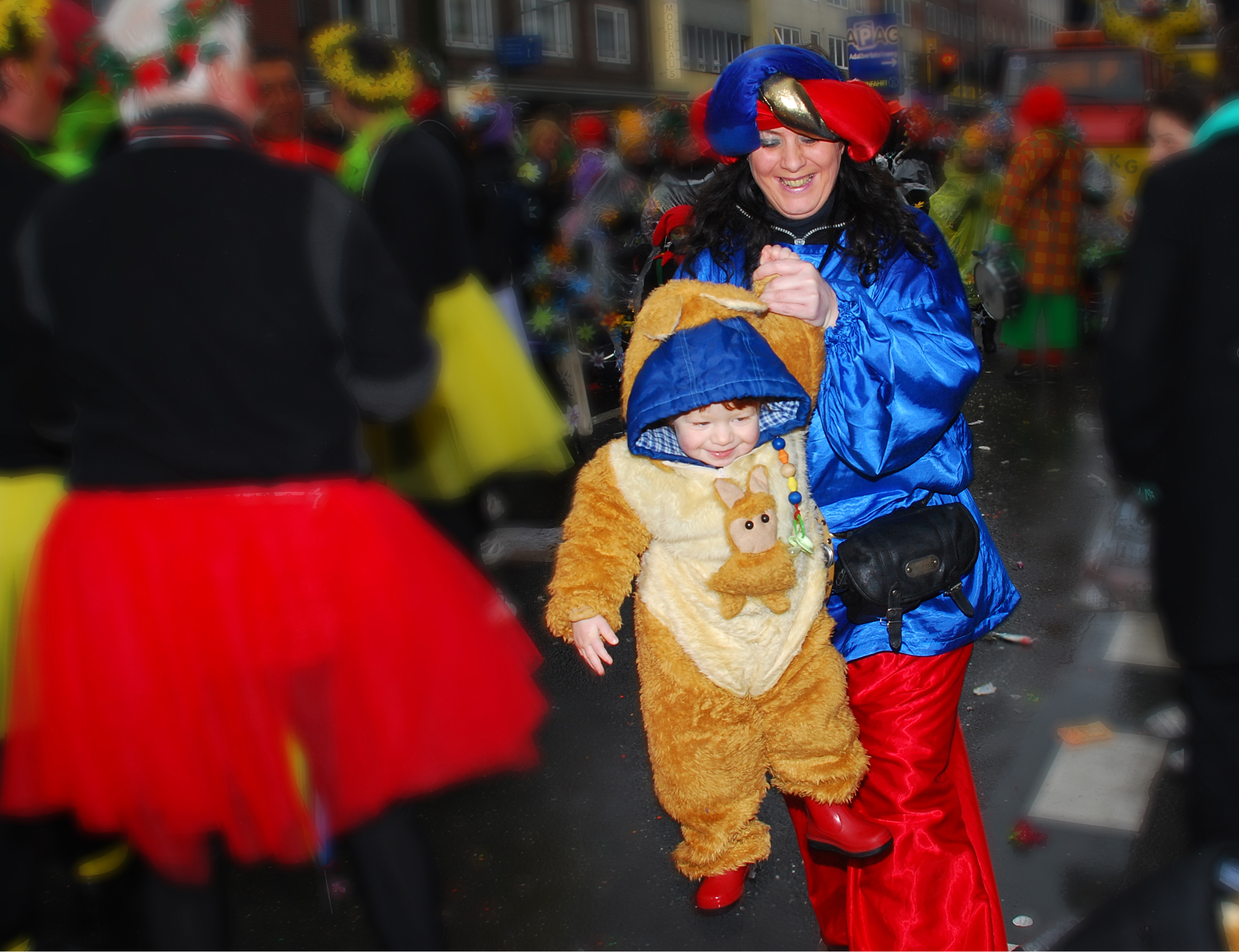 Rosenmontag 2009, this picture was taken in the carnival (Karneval) of Aachen, which is called Rosenmontag. It is a day in which the families dress up in costumes like the mother and child in this picture. The picture was taker in Adalbertsteinwegstraße (street) in Aachen, Germany. Photo by Aymx